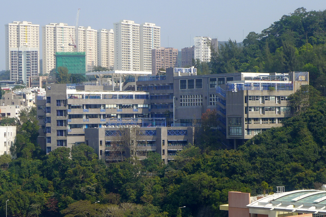 French International School of Hong Kong Jardine's Lookout Campus